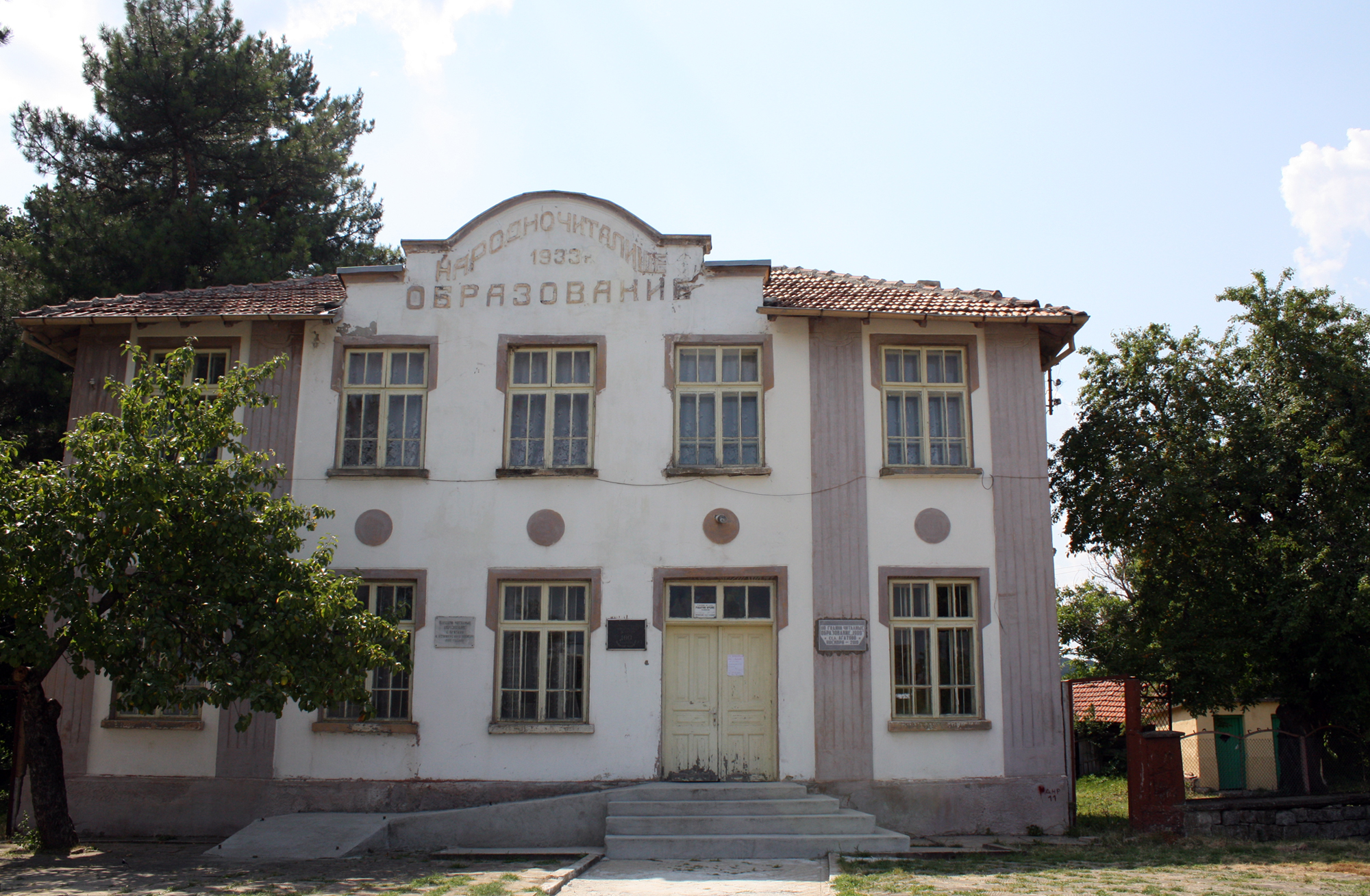 Chitalishte (Culture Club) in Agatovo village, Bulgaria